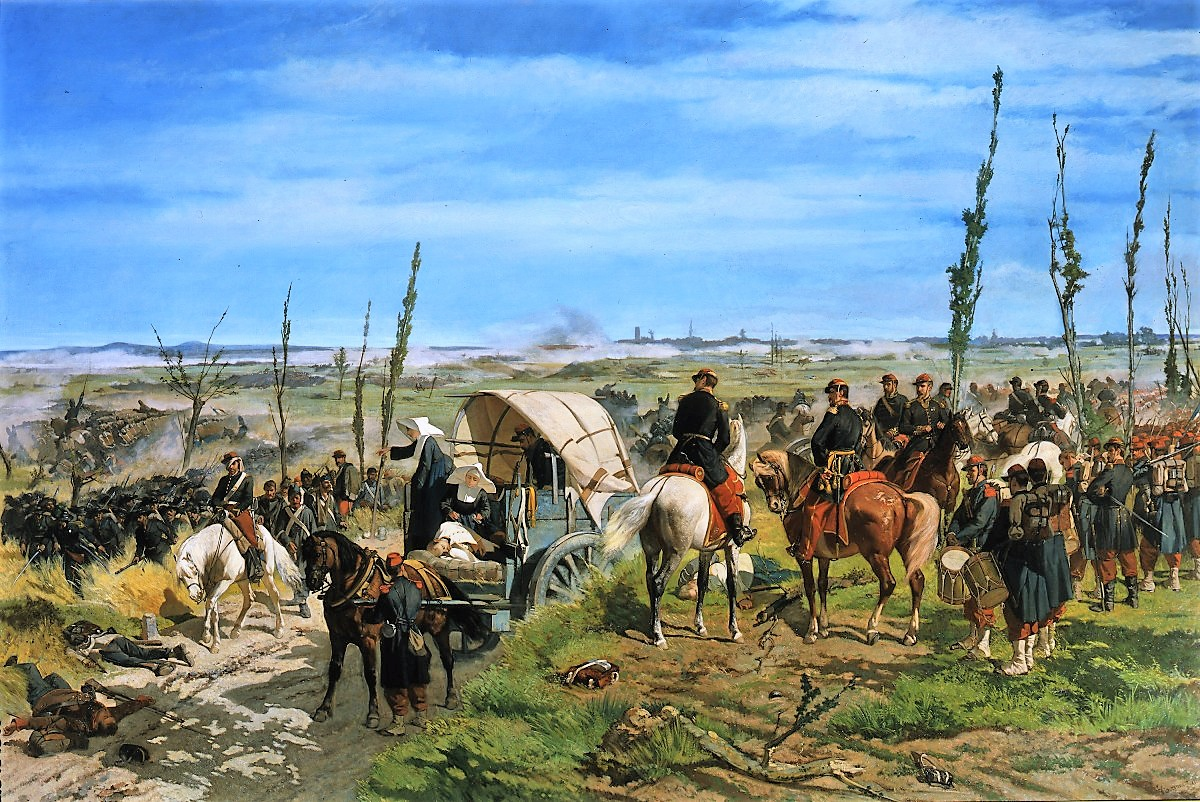 The Italian Camp at the Battle of Magenta, 1859 by Giovanni Fattori.